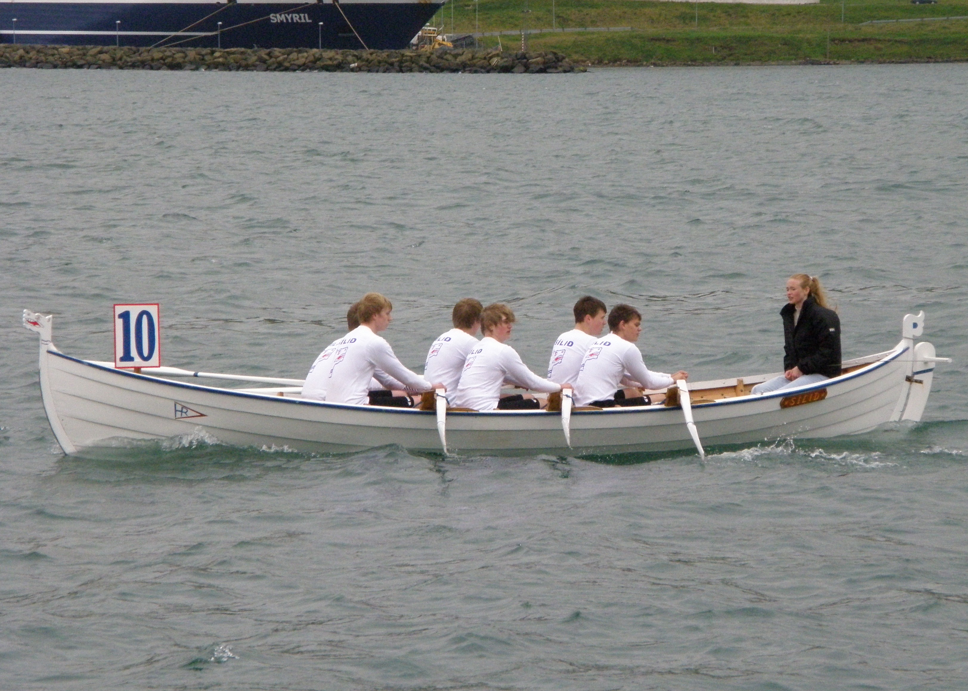 Sílið is a Faroese wooden rowing boat, which belongs to the rowing club Havnar Róðrarfelag from Tórshavn. Sílið is a 5-mannafar, it is the boat which has won the Faroese Championship (FM) most times, the boys won FM 8 times and the women won it 12 times (the statistics go back to 1973). This photo was taken just after the Jóansøka boat race in Tvøroyri in June 2011. Føroyskt: Sílið er 5-mannafar hjá Havnar Róðrarfelag. Sílið er tað 5-mannafarið sum hevur vunnið flest FM heitið, bæði tá talan er um dreingjaróðurin og 5-mannafør kvinnur. Dreingirnir á Sílinum hava vunnið FM 8 ferðir og kvinnurnar hava vunnið FM 12 ferðir. (Hagtøl frá 1973-2011). Myndin varð tikin beint eftir kappróðurin á jóansøku 2011 á Tvøroyri.